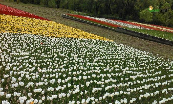 Olandezele din satul Bardar.